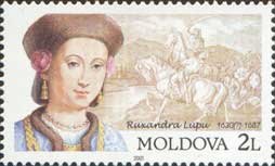 Ruxandra Leipu, Stamp of Moldova